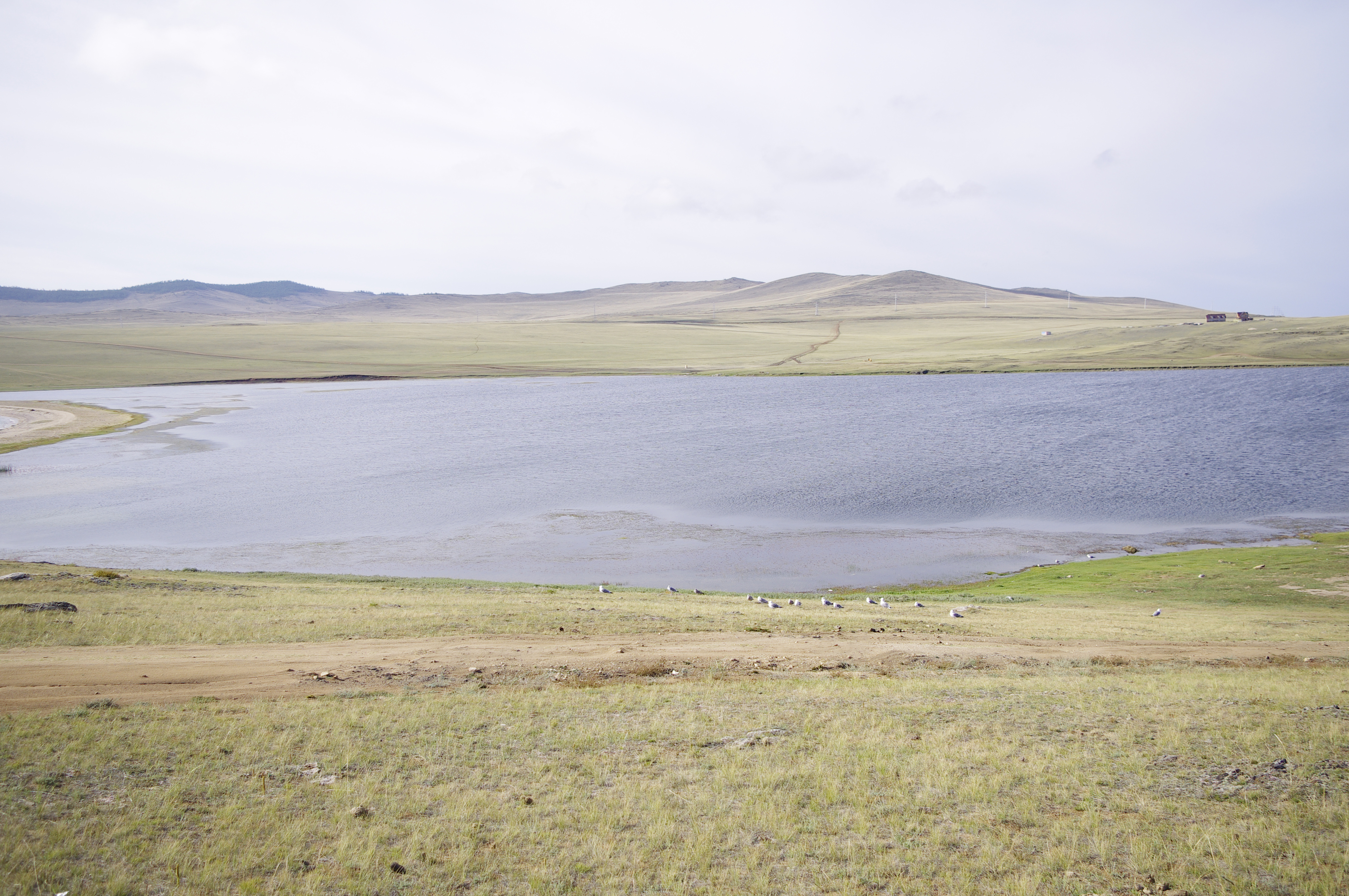 Lake Khan-Khoi on Olkhon Island - actually, a former lagoon of Lake Baikal, separated from the lake by a dam